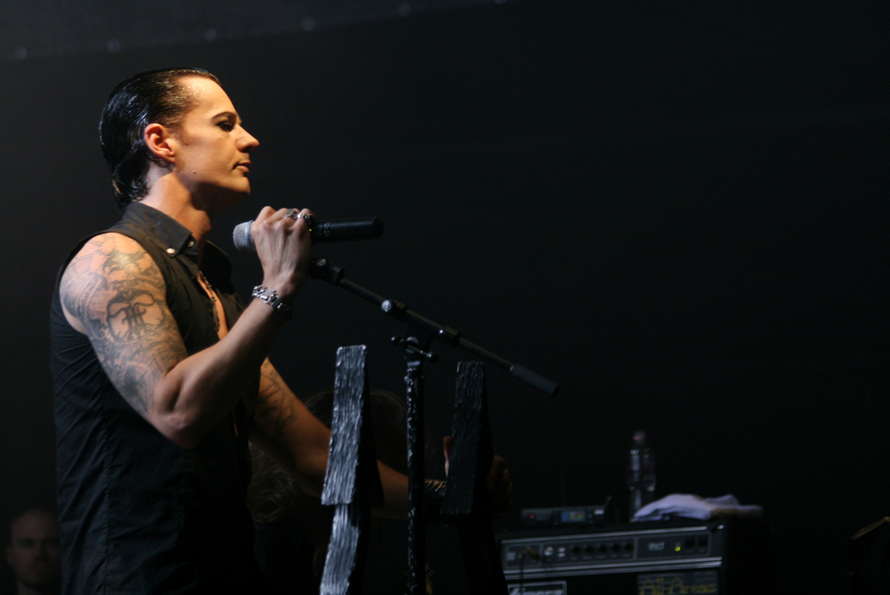 Satyr (Satyricon) live in Budapest